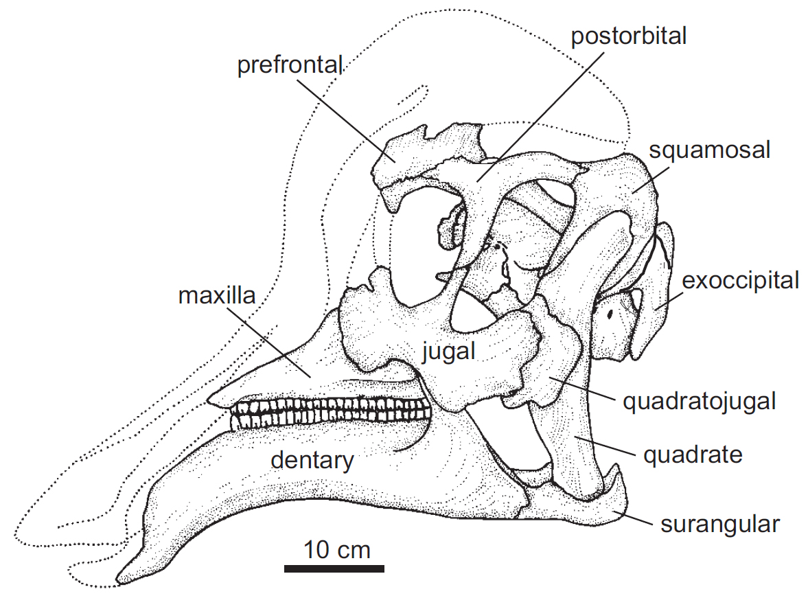 Reconstruction of the skull of Amurosaurus riabinini in left lateral view.